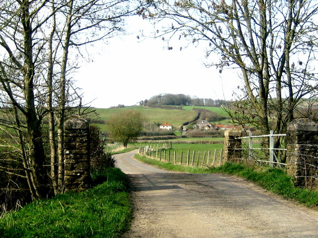 Bridge over the River Bride - Puncknoll